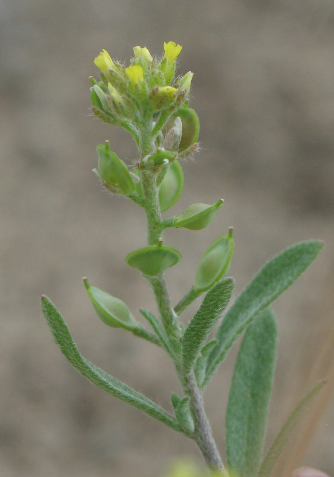 Desert madwort (Alyssum turkestanicum), 146th Avenue, Osoyoos, B. C., Canada